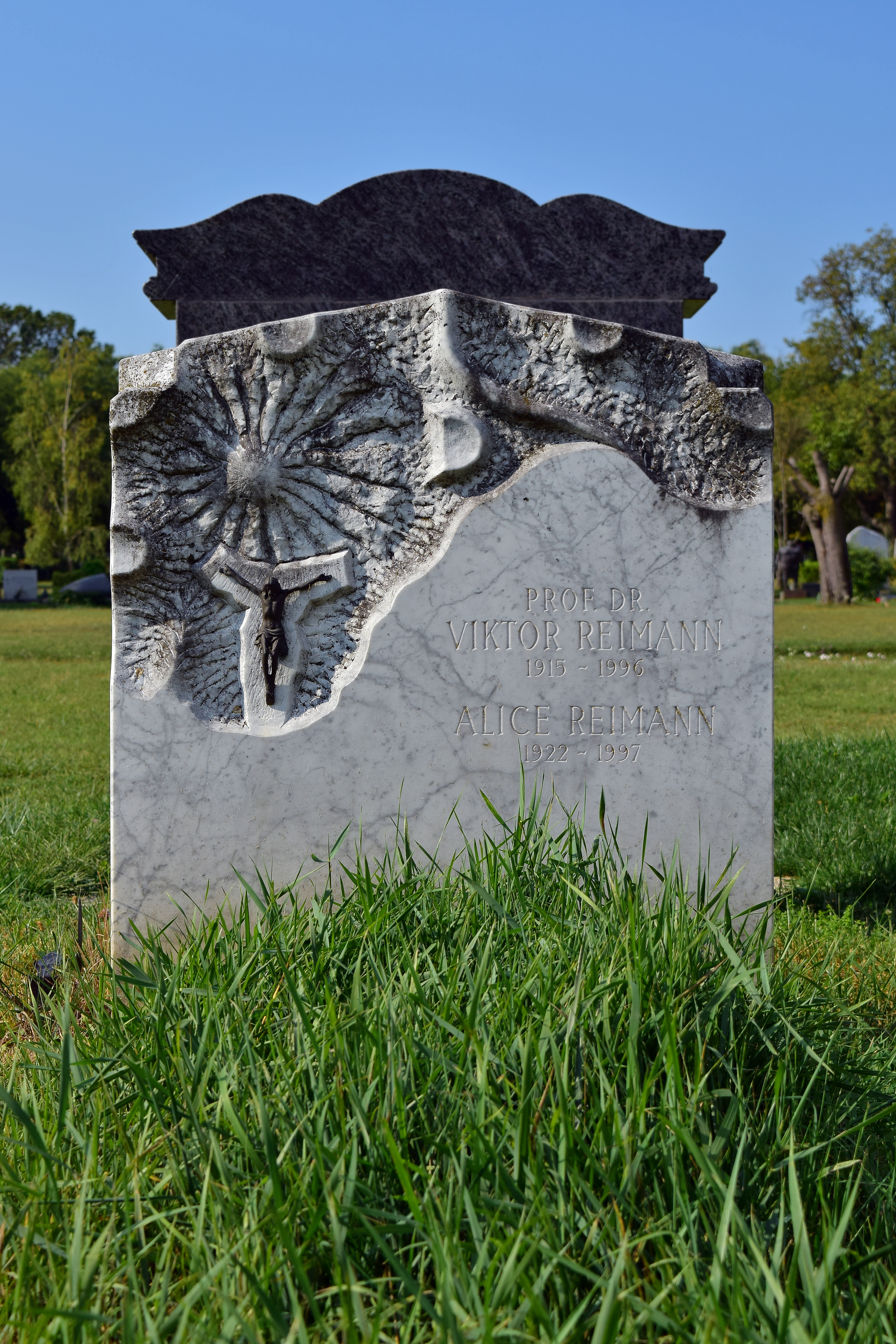 Grave of honor of the Austrian writer Viktor Reimann at the Wiener Zentralfriedhof